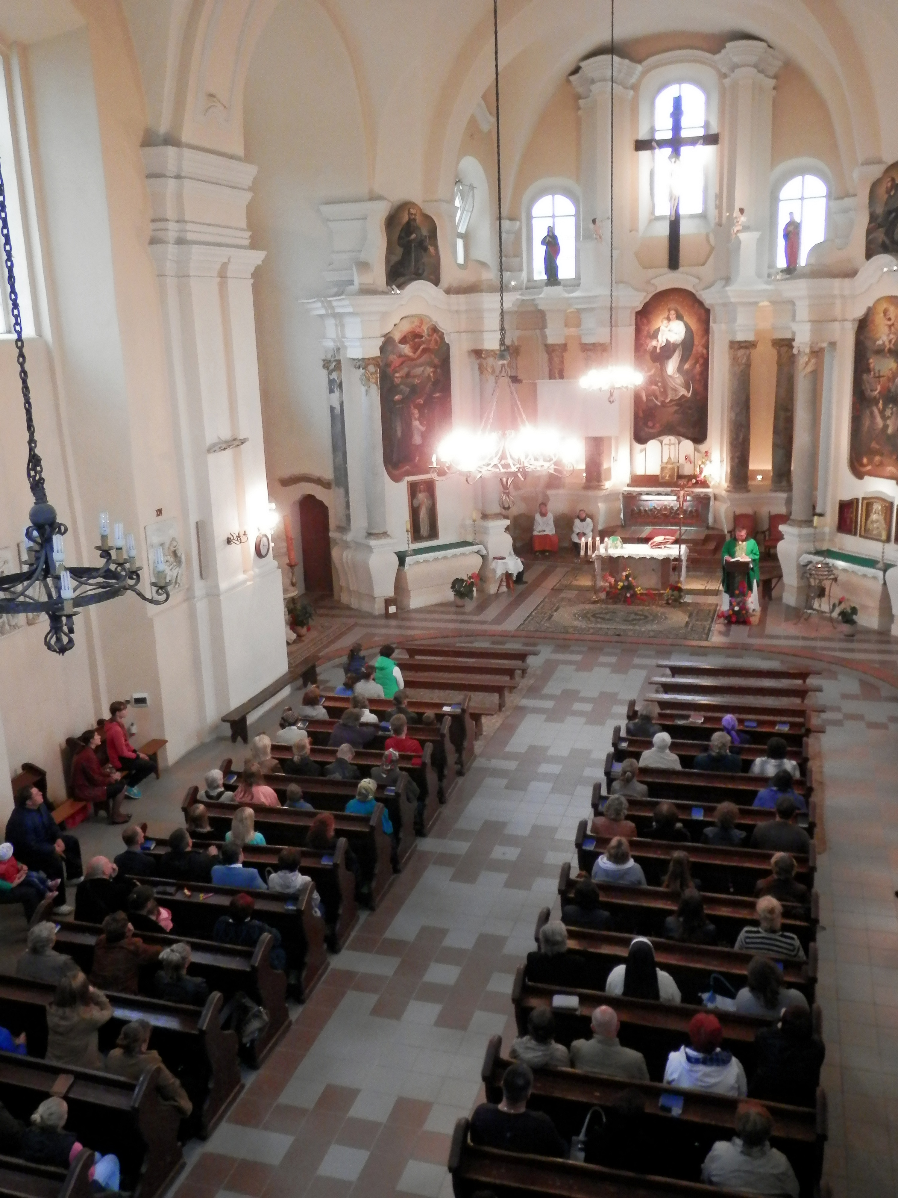 Franciscan Church of Saint Michael the Archangel. Ivyanets, Belarus